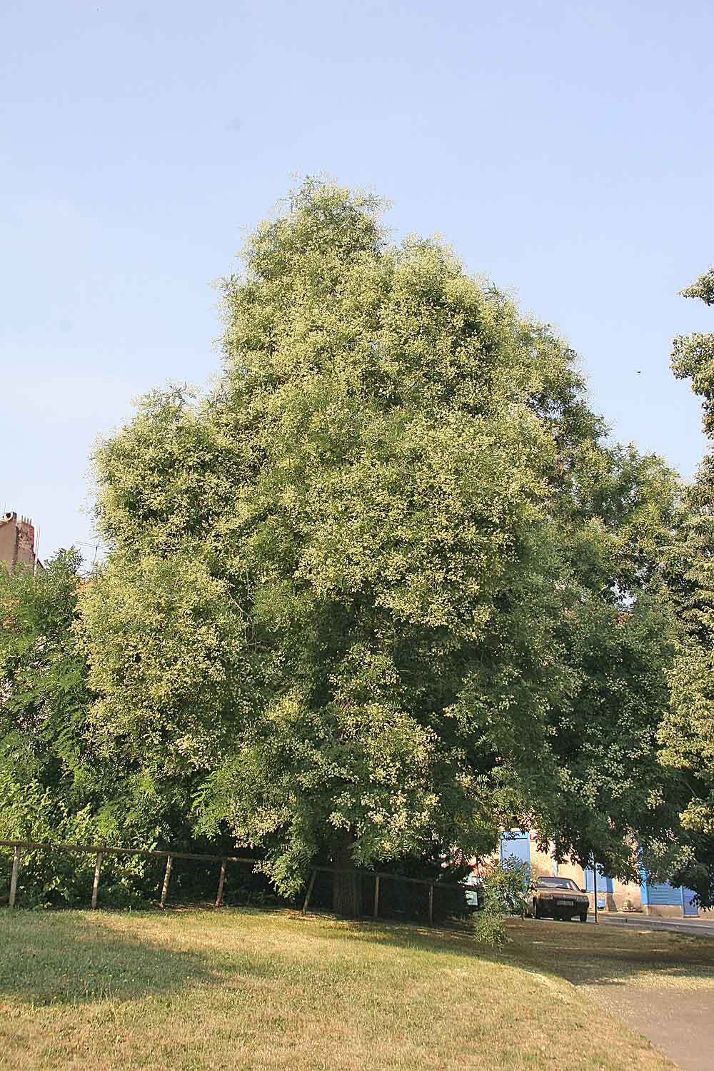 Flowering Styphnolobium japonicum in Prag, Czech republic autor:Prazak